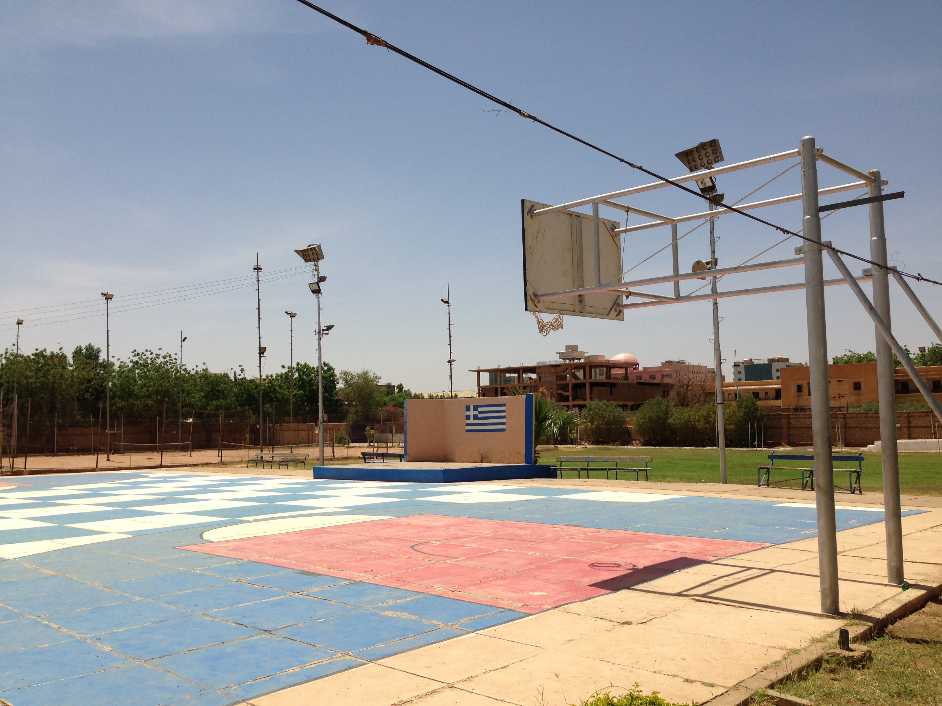 The basketball, tennis and football courts at the Hellenic Athletic Club in Khartoum, Sudan